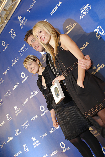 Spanish band Dover.